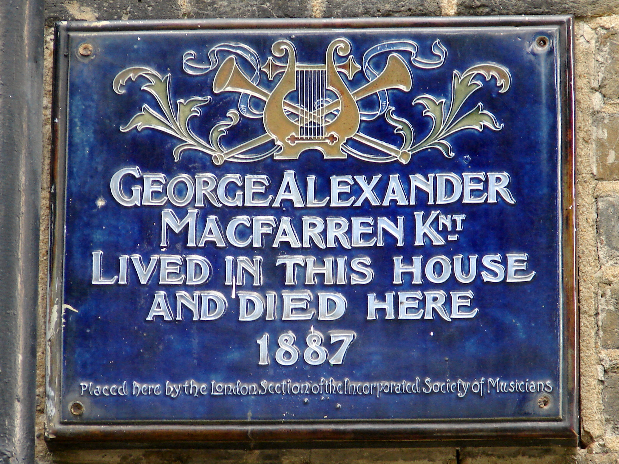 George Alexander Macfarren plaque at 20 Hamilton Terrace, London NW8 9UG